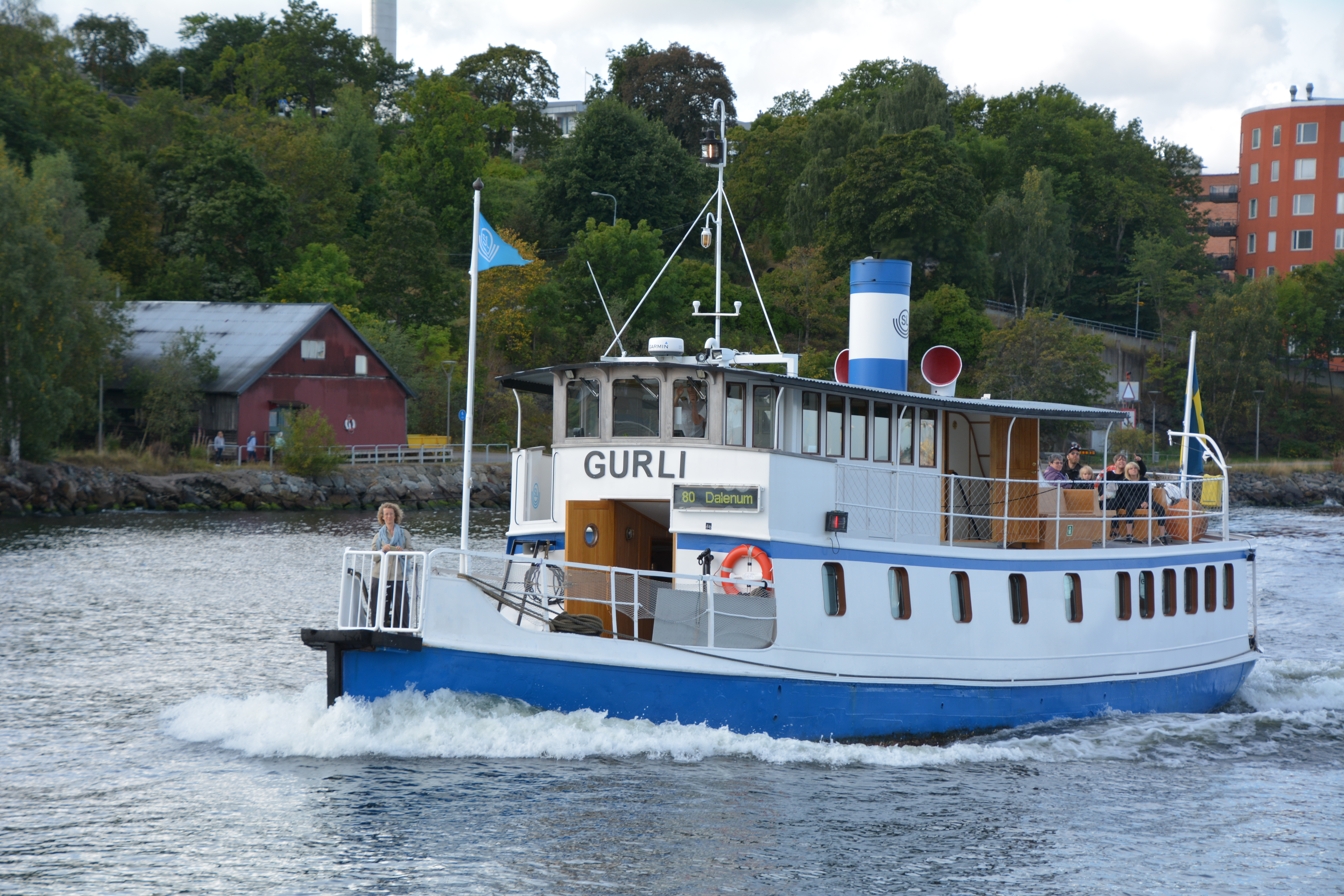 M/S Gurli, Stockholm, Sweden, built 1871 by Bergsunds Mekaniska Verkstad, Stockholm, No 96, Signal SLEG